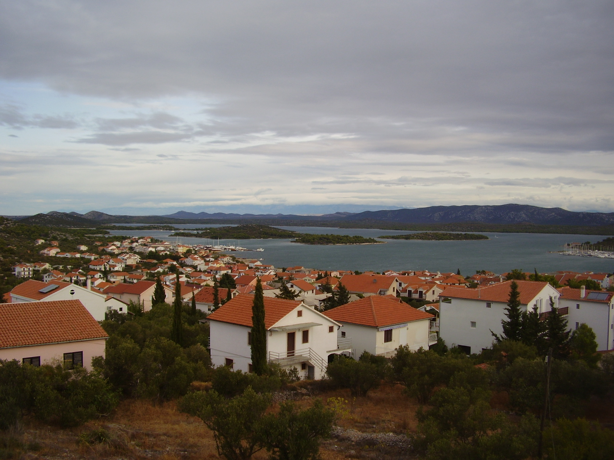 View of Murter